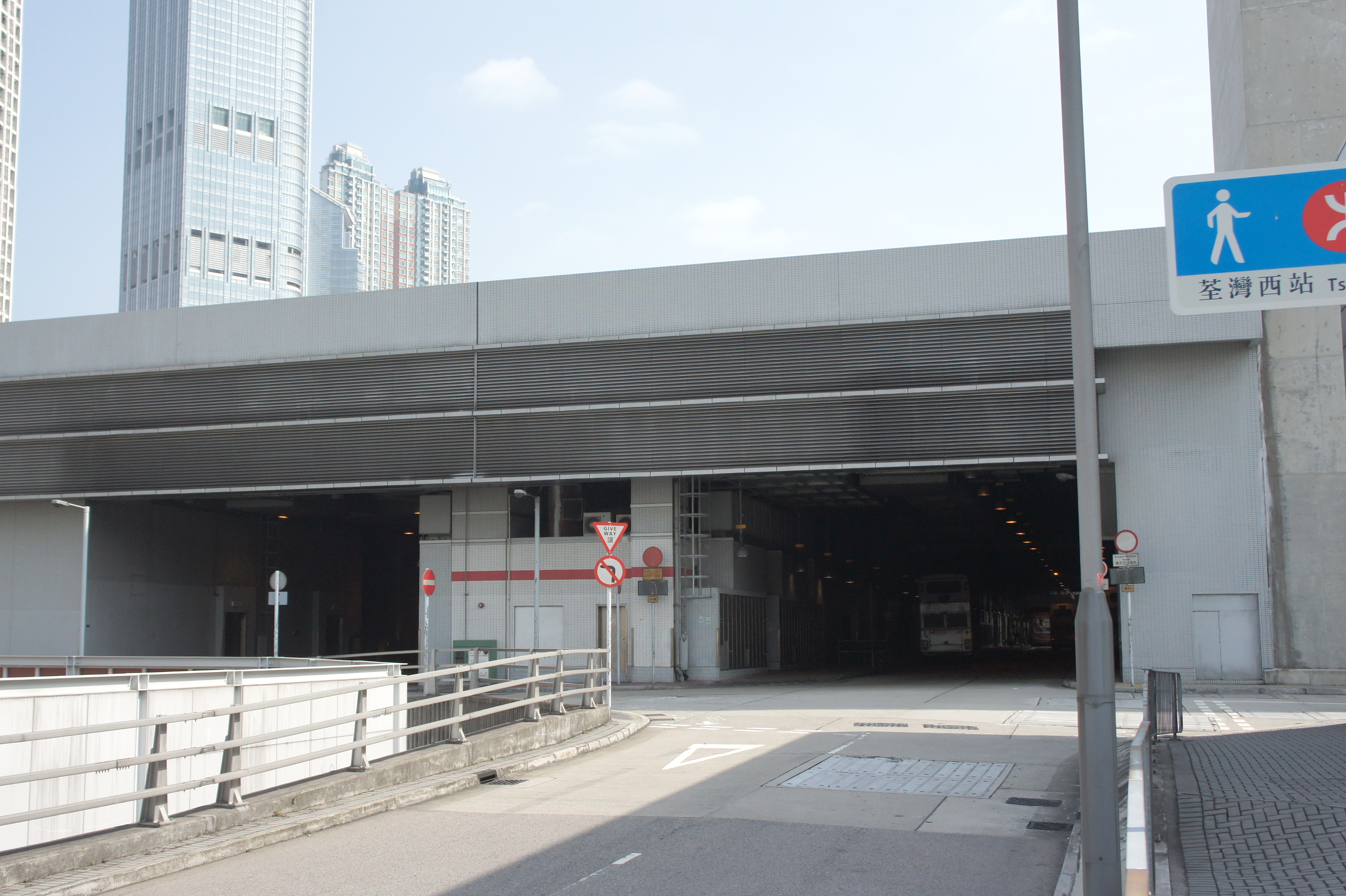 Tsuen Wan West Station Public Transport Interchange, North Entrance, New Territories, Hong Kong.